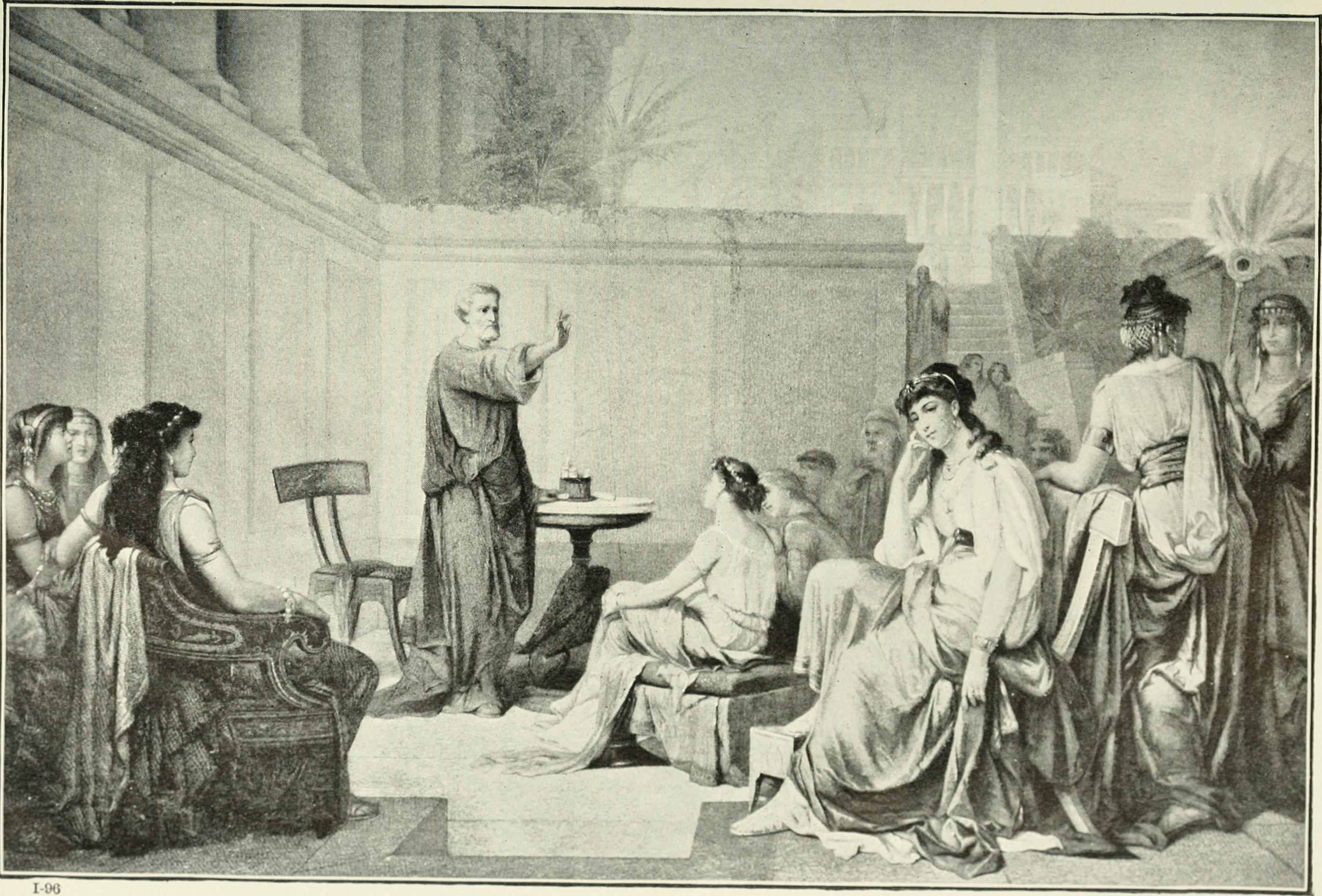 Title: The story of the greatest nations; a comprehensive history, extending from the earliest times to the present, founded on the most modern authorities, and including chronological summaries and pronouncing vocabularies for each nation; and the world's famous events, told in a series of brief sketches forming a single continuous story of history and illumined by a complete series of notable illustrations from the great historic paintings of all lands Year: 1913 (1910s) Authors: Ellis, Edward Sylvester, 1840-1916 Horne, Charles F. (Charles Francis), 1870-1942 Subjects: World history Publisher: New York : Niglutsch Text Appearing Before Image: Most celebrated among the more ancient of their wise mean was Pythagoras .. Text Appearing After Image: Greece—Battle of Marathon 191 league of the ten generals. Miltiades, seconded by two other generals, The-mistocles and Aristides, argued so earnestly with him that he was convinced,and voted for immediate battle. It was the practice for each general to com-mand in rotation the army for a day, but all agreed to place their days of com-mand in the hands of Miltiades, and it was surely a wise proceeding to haveeverything in the hands of a single person, whose ability had been proven. An inspiriting occurrence took place while the Athenians were preparingfor battle. They had given help to Plataea years before when she was attackedby the Thebans, and now the Plataeans sent their whole force to the help of theAthenians, consisting of one thousand heavy-armed men. Athens never forgotthis favor. The whole Athenian army consisted of only ten thousand heavyarmed soldiers; they had no archers or cavalry, and only a few slaves as light-armed attendants. We have no means of knowing the strength